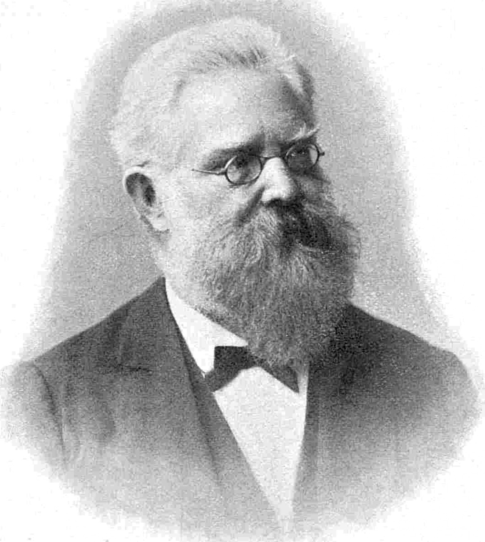 Friedrich Wilhelm Graupenstein (1828–1897) Description German painter and lithographer Date of birth/death2 September 182825 May 1897Location of birth/deathMindenHamburgWork locationBerlin, Bremen, HamburgAuthority control VIAF: 59845660 GND: 116826290